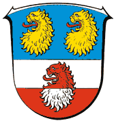 Coat of Arms of Lahnau